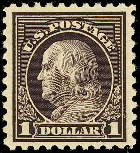 US postage stamp, Benjamin Franklin